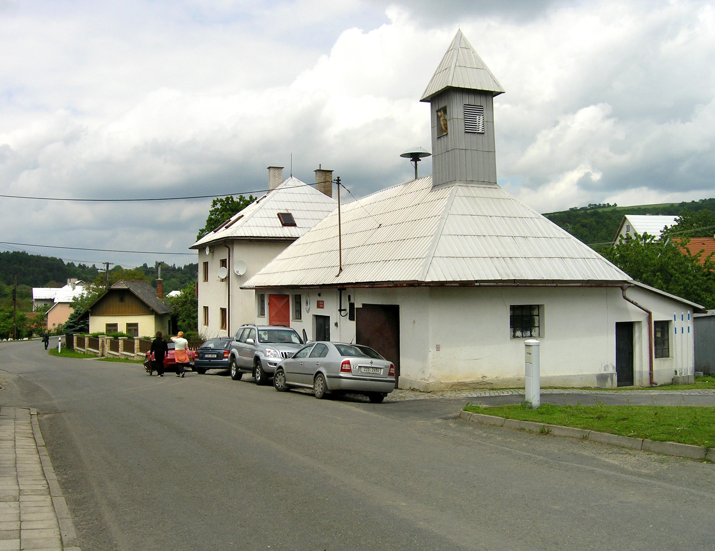 Fire brigade in Bratřejov, Czech Republic